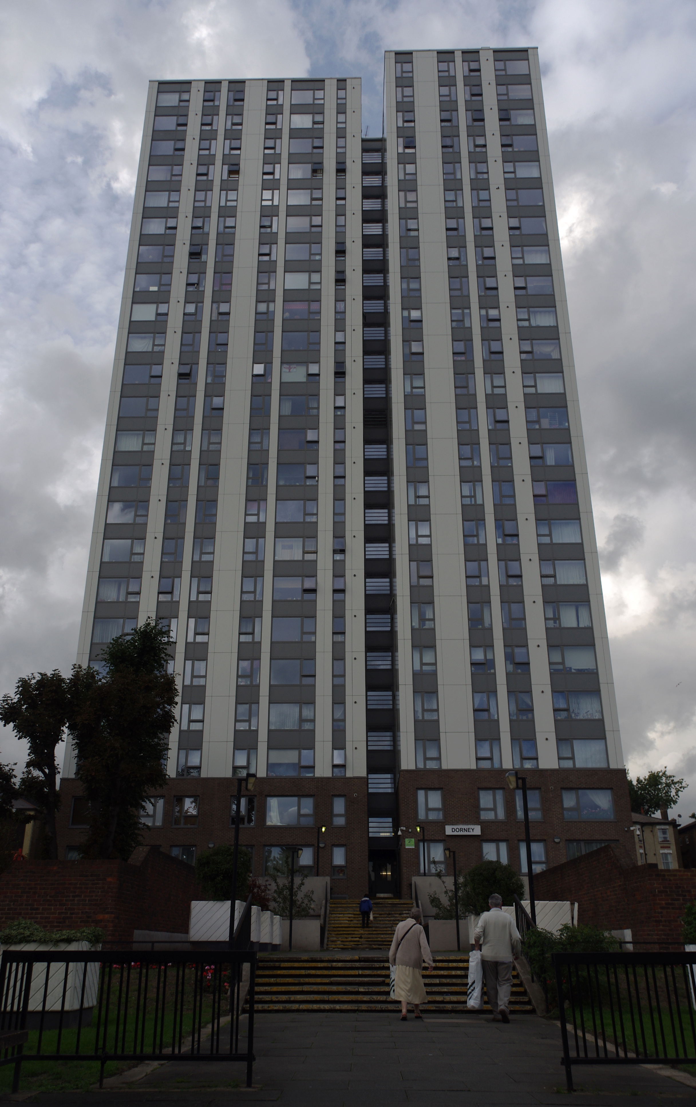 The "Dorney" tower block on the B509 Adelaide Road in St Johns Wood, London.